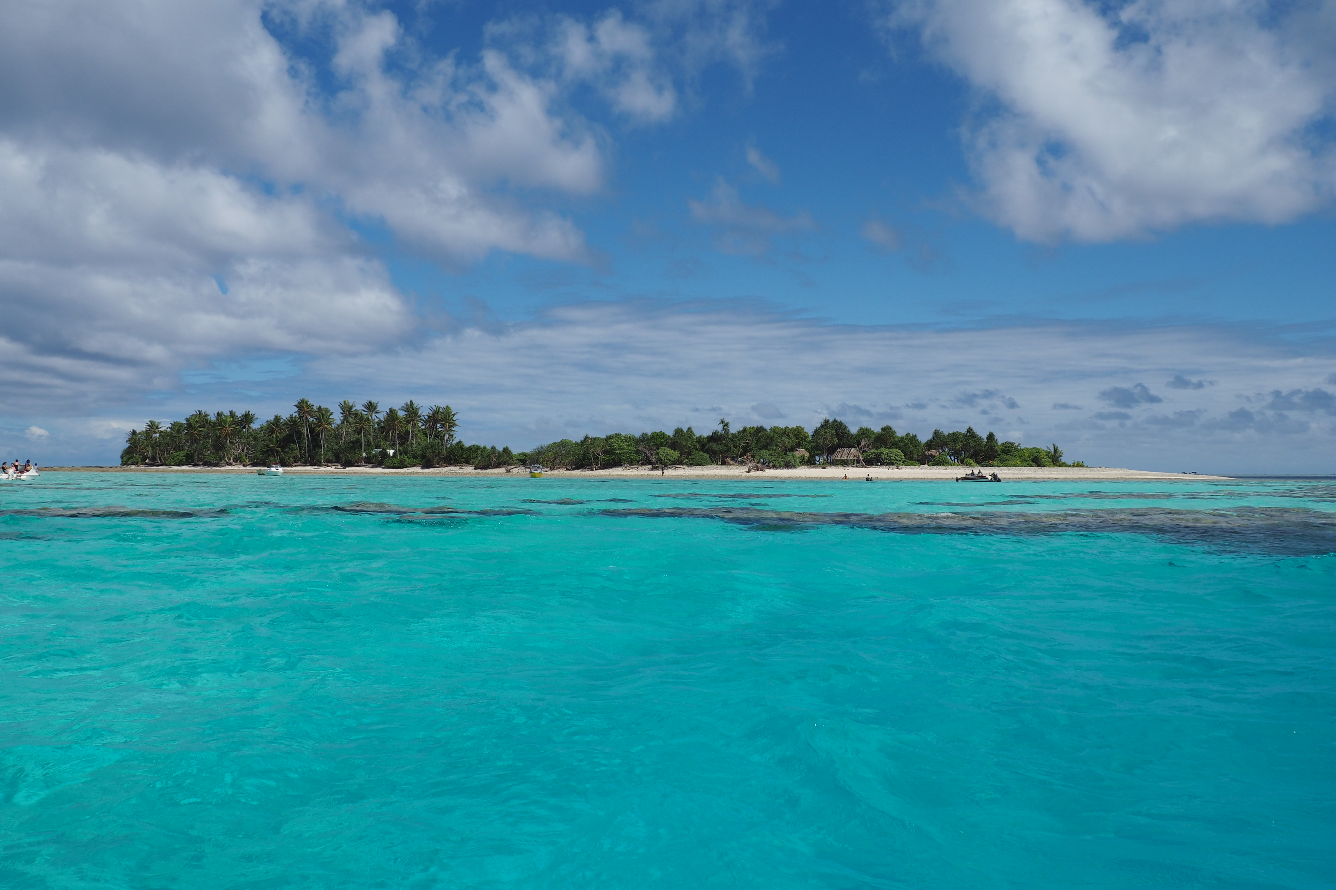 L'îlot de la passe - fenuafo'ou- à marée basse - Wallis